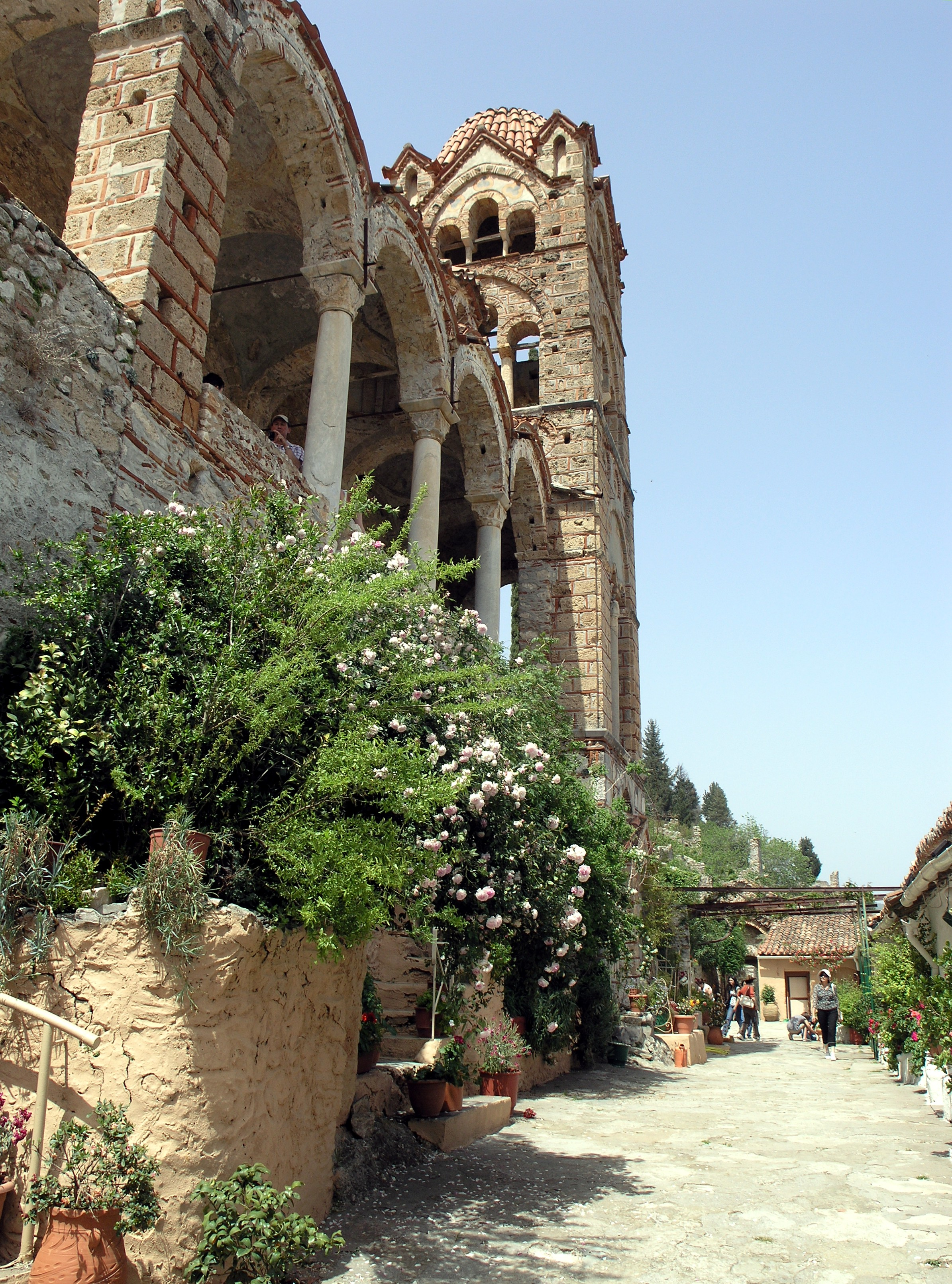 Monastery of Pantanassa, main church